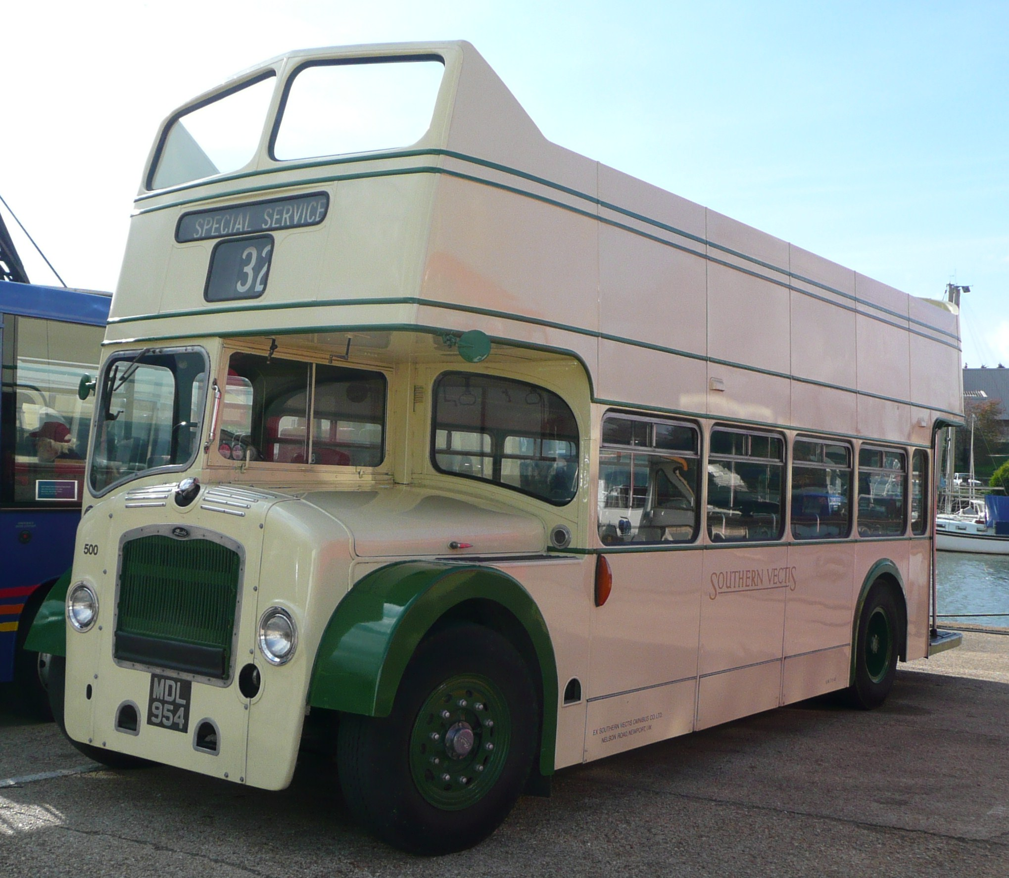 Preserved Southern Vectis 500 (MDL 954), a Bristol Lodekka/ECW, at the 2008 Isle of Wight bus museum running day, seen here on Newport Quay.